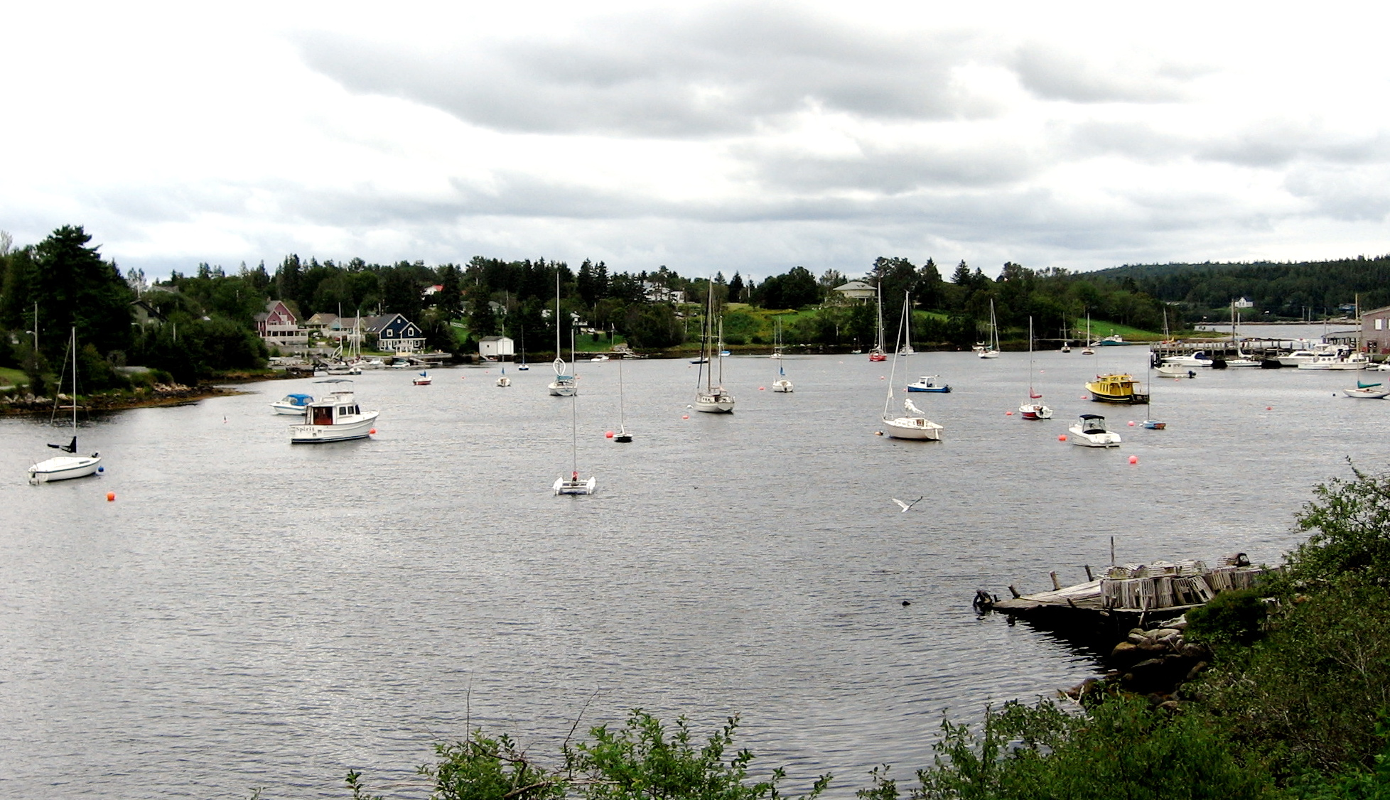 self